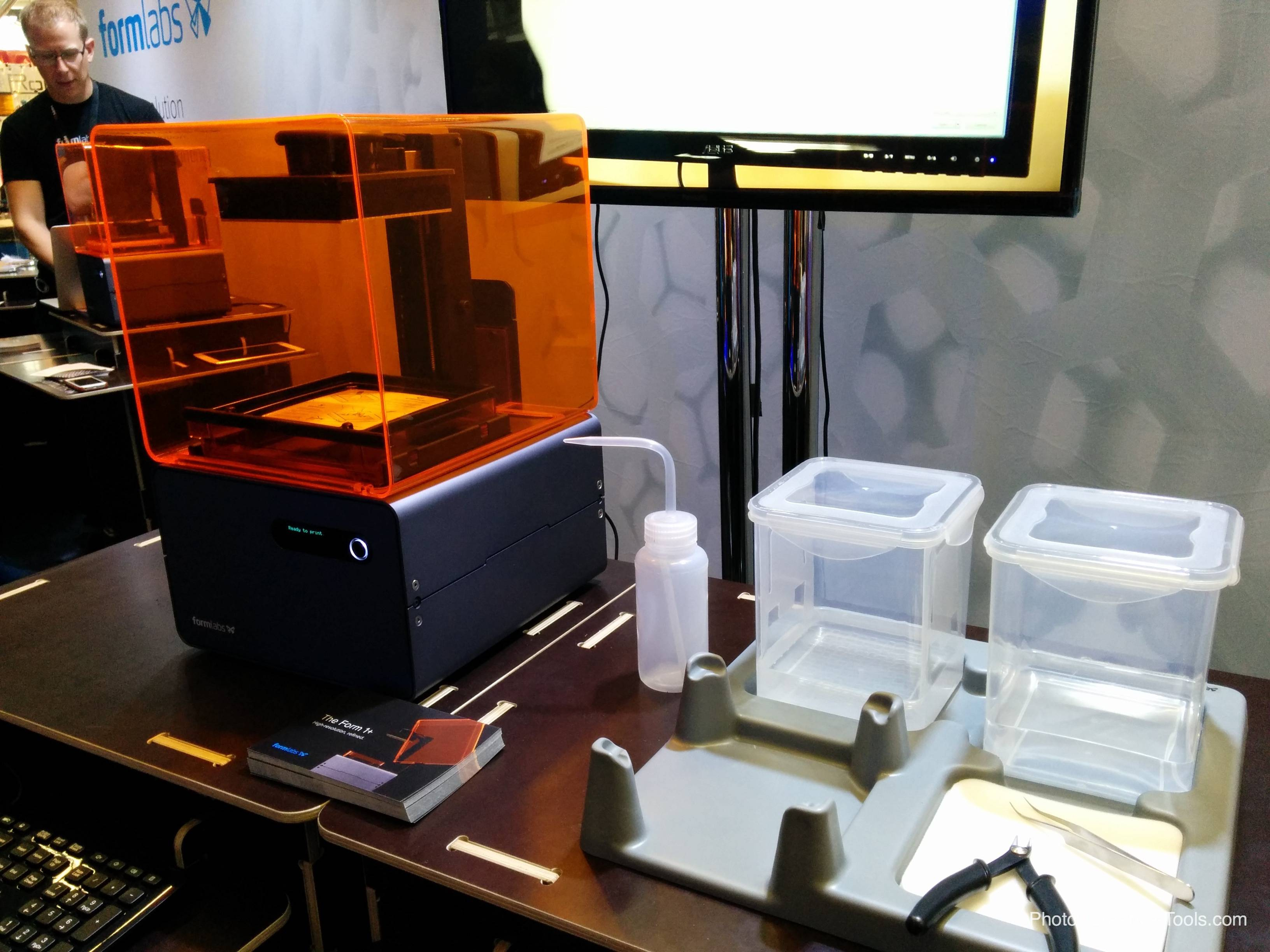 Photos from a day at the London 3D Printshow 2014. Photo by: 3D Printshow 2014 London